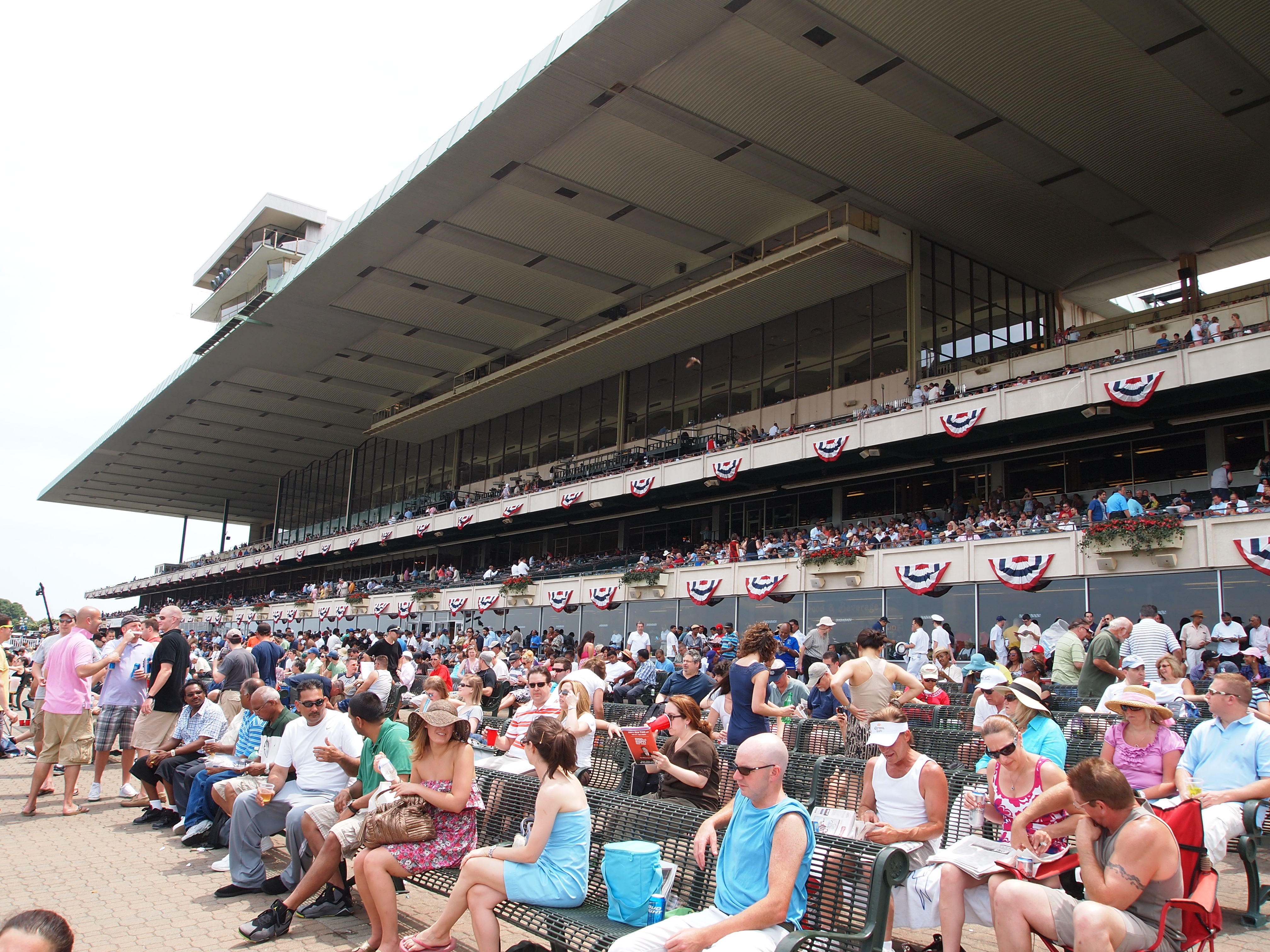 Images taken at Belmont Park on Belmont Stakes day, June 5, 2010